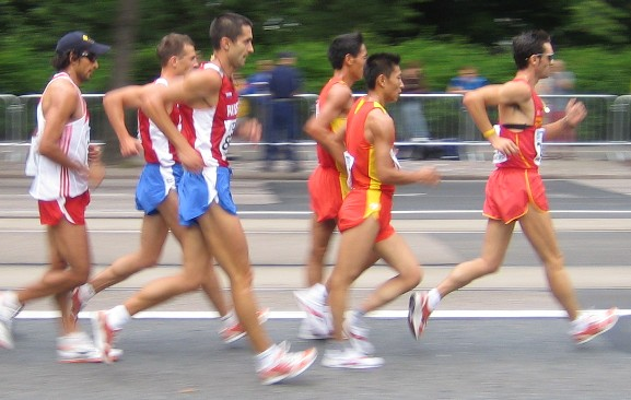 Race walking in Mannerheimintie, Helsinki, Finland in 2005 World Championships in Athletics, August 2005. Notice that the walker at the right is illegal in that both feet are off the ground.